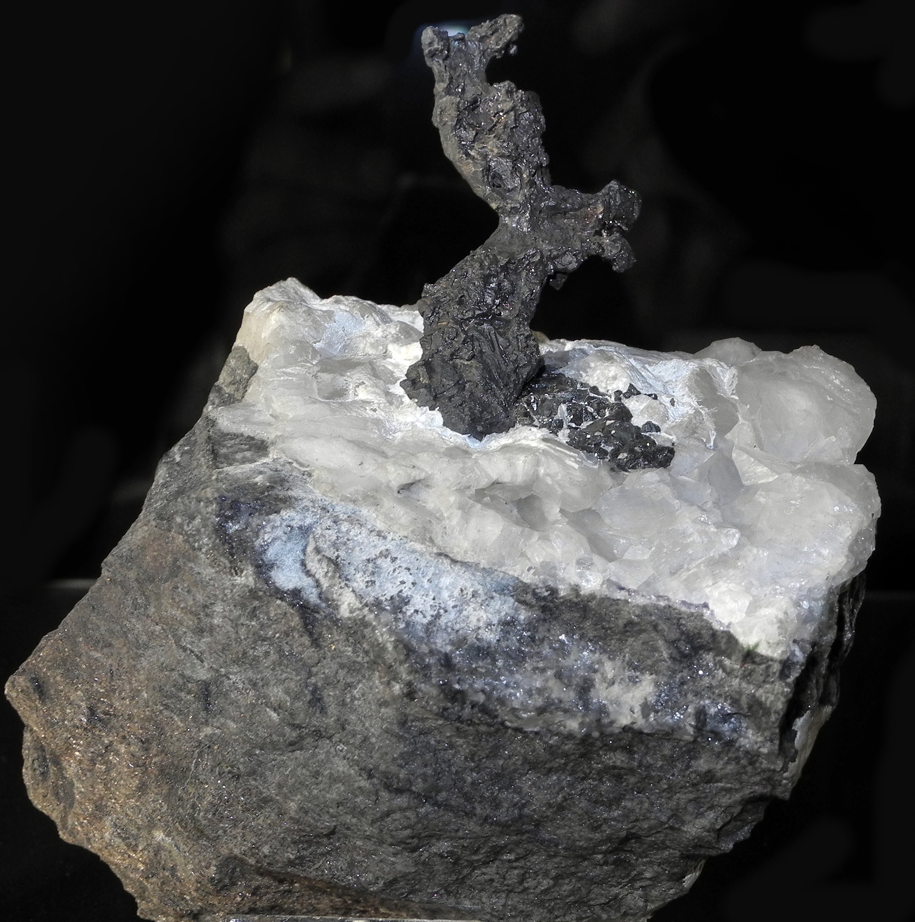 native silver, Museum, Wrocław